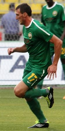 Artyom Fidler playing for FC Kuban Krasnodar.